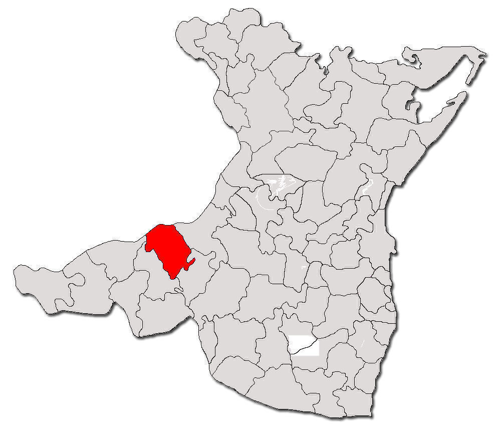 Contour map of commune Aliman